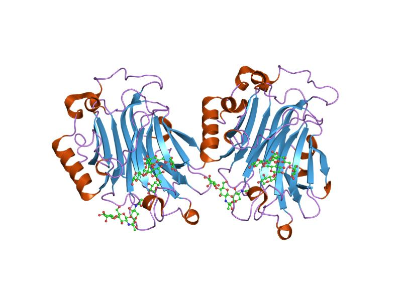 Cartoon representation of the molecular structure of protein registered with 1umz code.